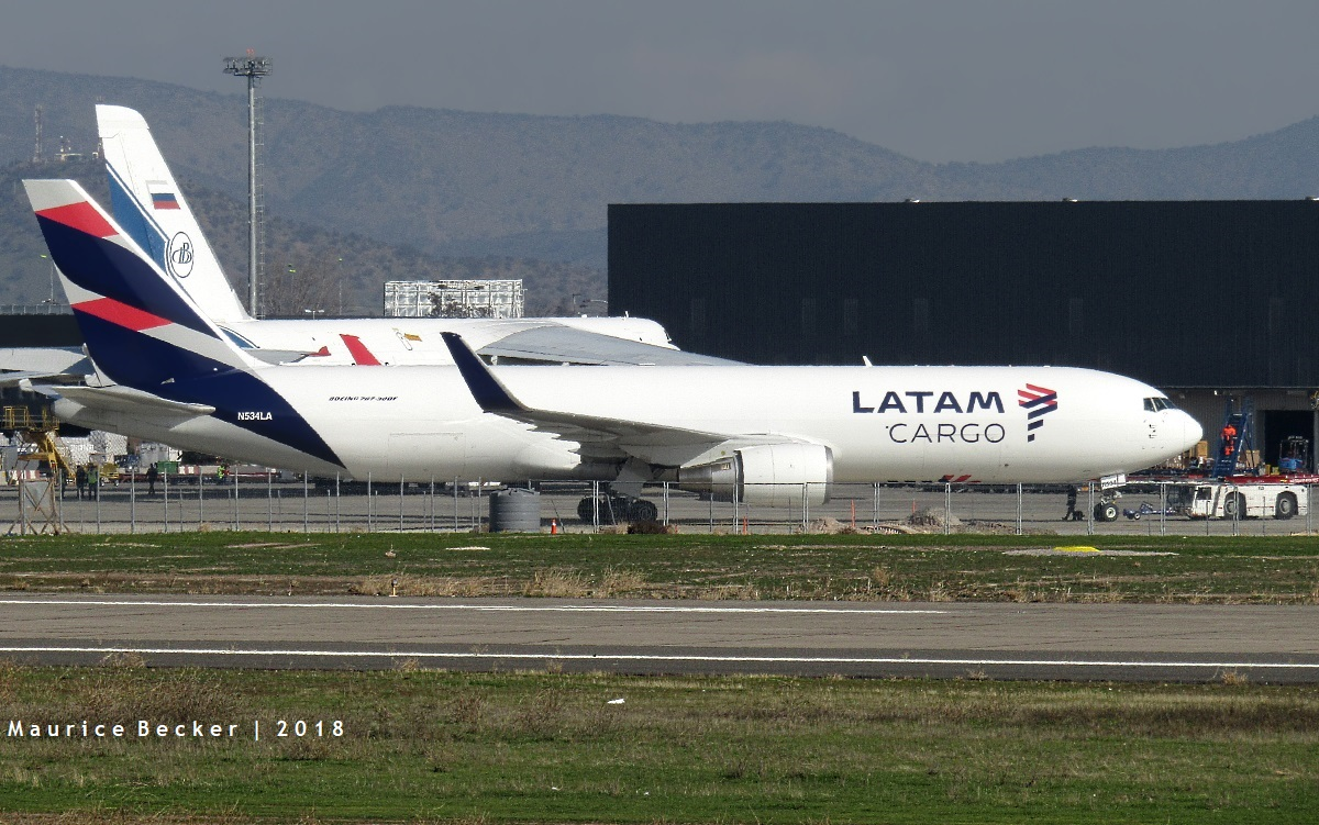 N534LA LATAM Cargo